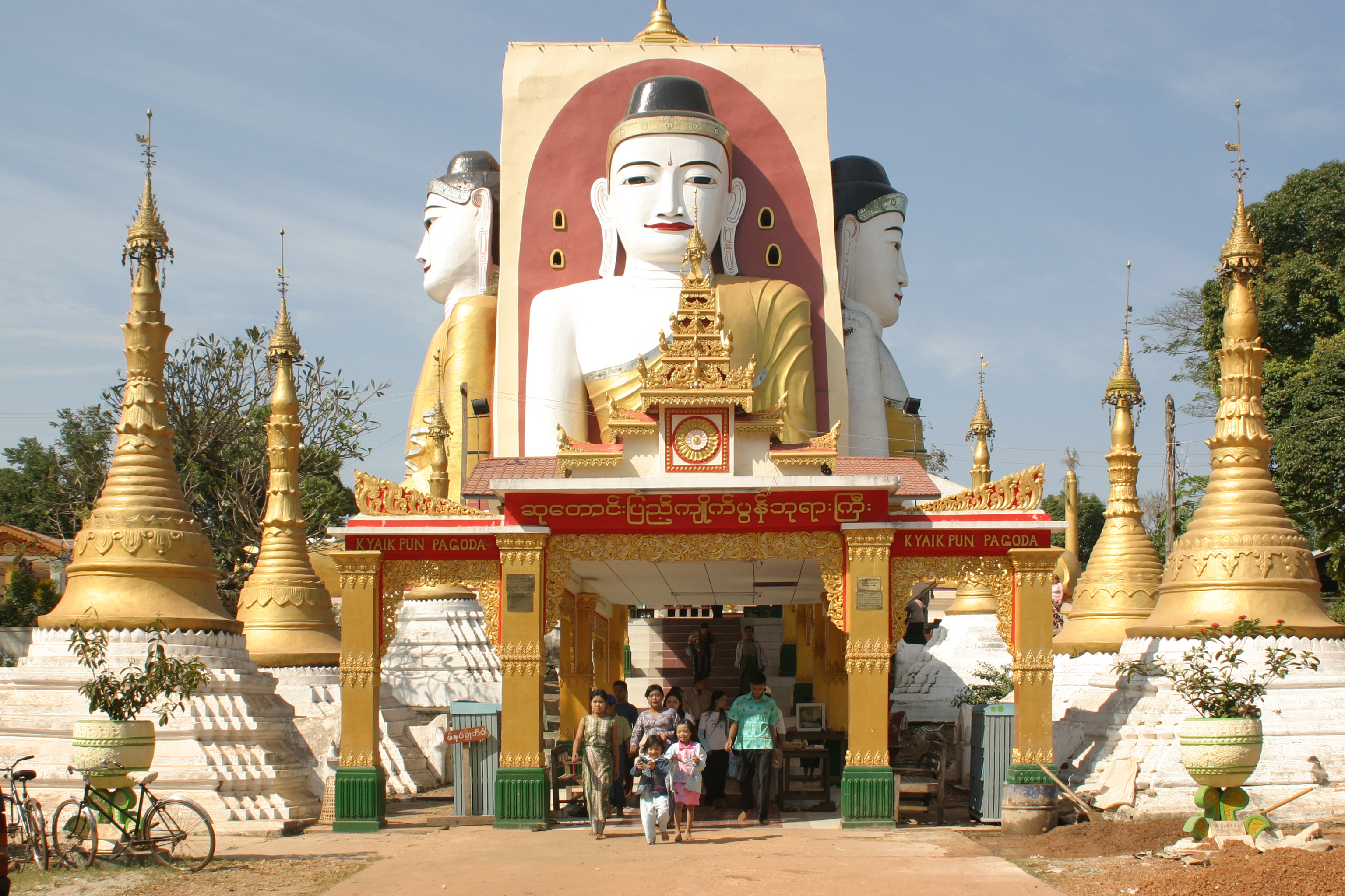 Buddhas of Kyaikpun in Bago, Myanmar